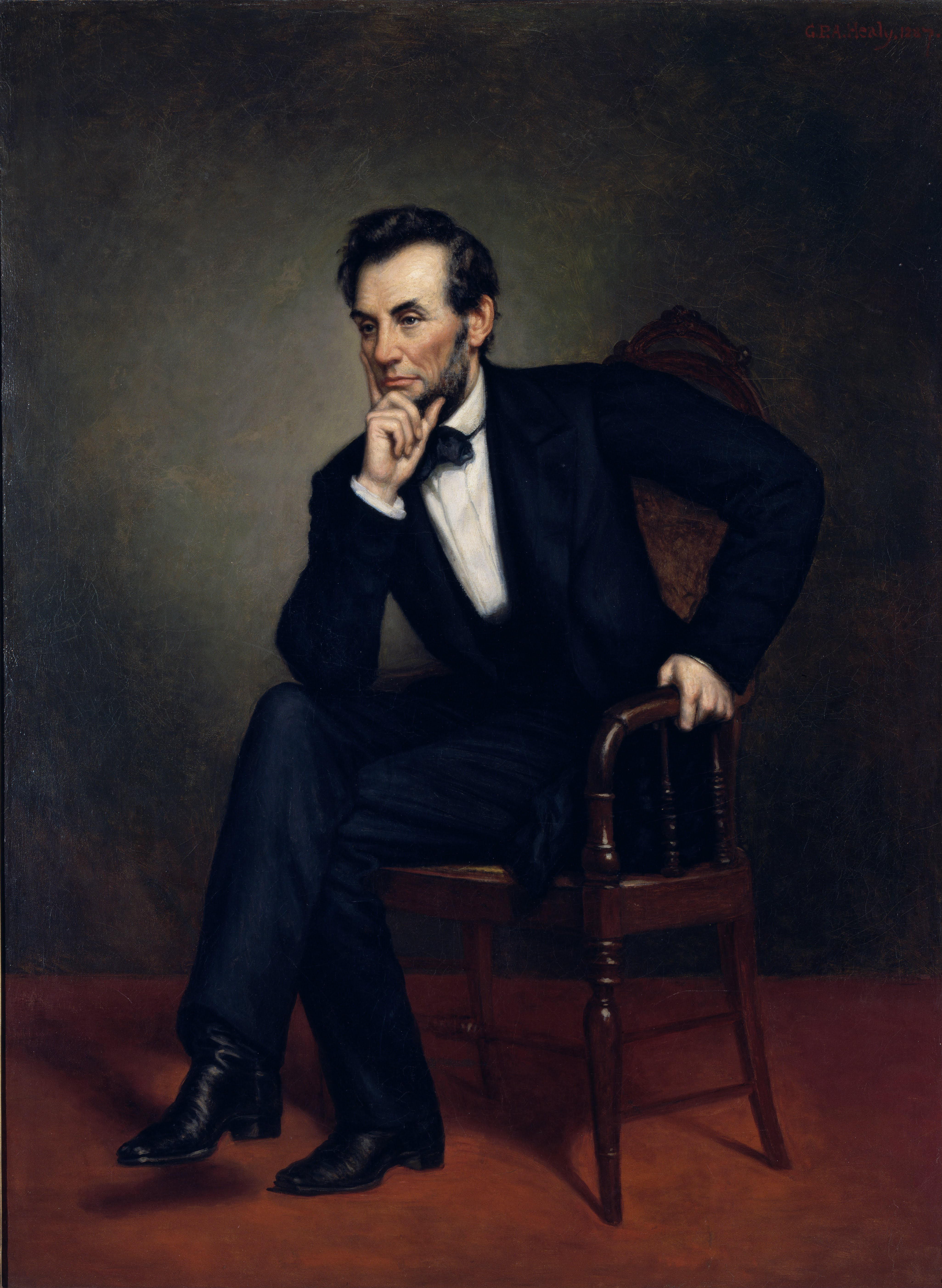 Portrait of Abraham Lincoln (1809-1865)